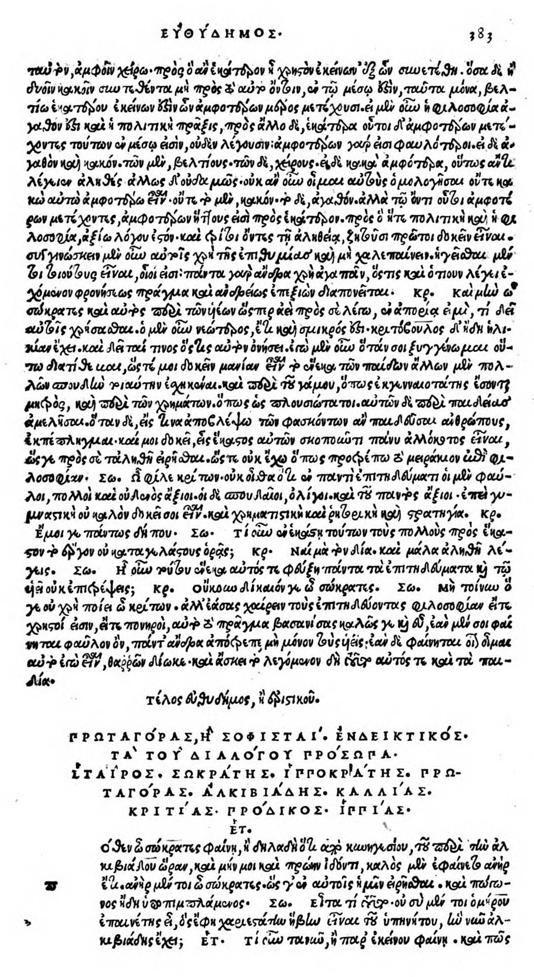 Protagoras beginning. Editio princeps, Venice 1513.